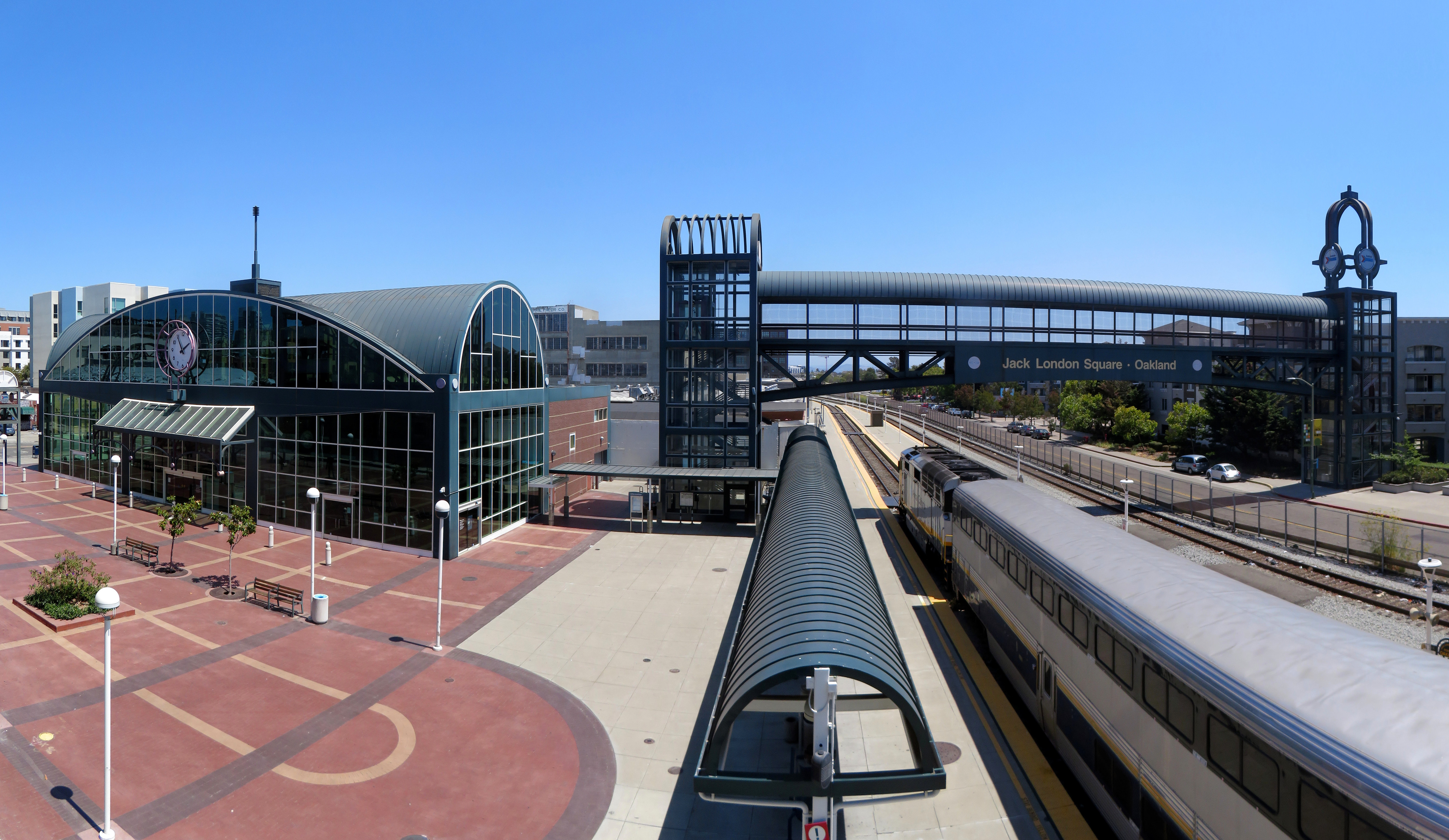 Oakland – Jack London Square station in July 2020. A northbound Capitol Corridor train waits to depart.